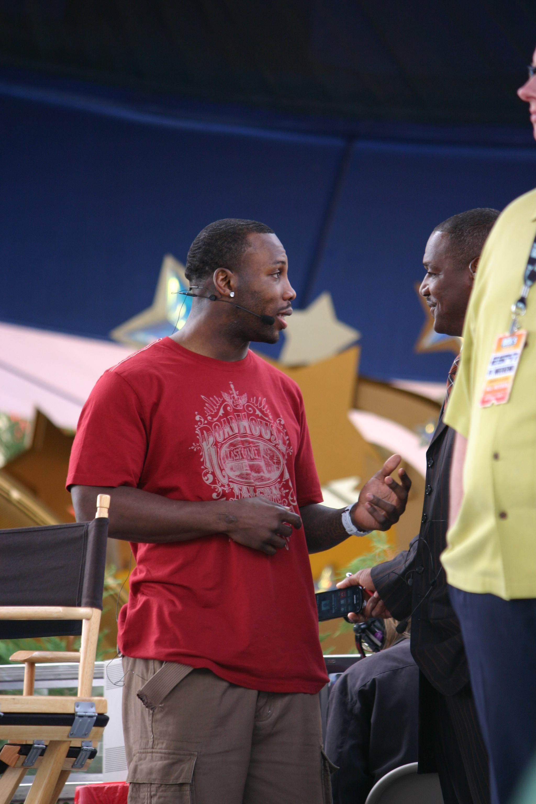 Anquan Boldin on set for an interview on ESPN First Take broadcast live from the Sorcerer's Hat Stage on Friday, March 4, 2011 as part of ESPN the Weekend